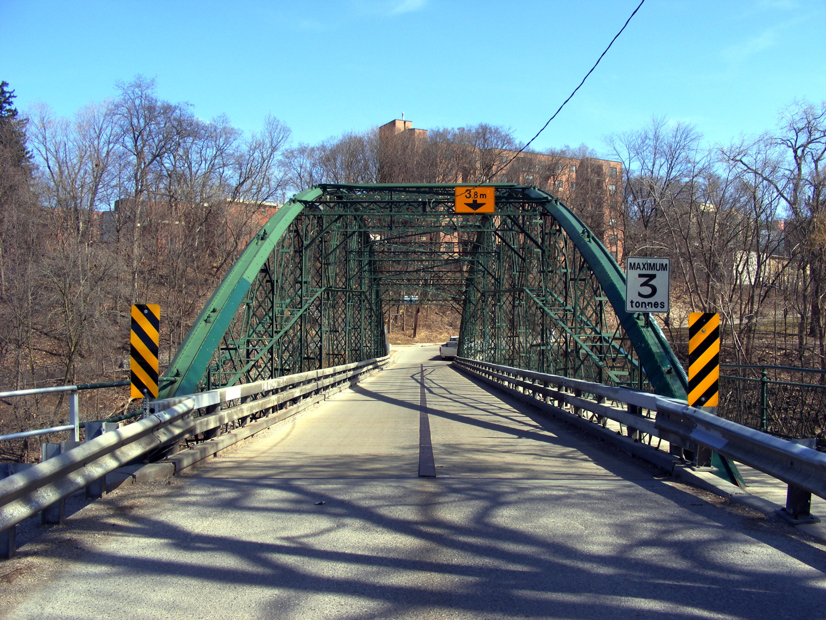 Blackfriars Bridge in London, Ontario. Date: April 6, 2008